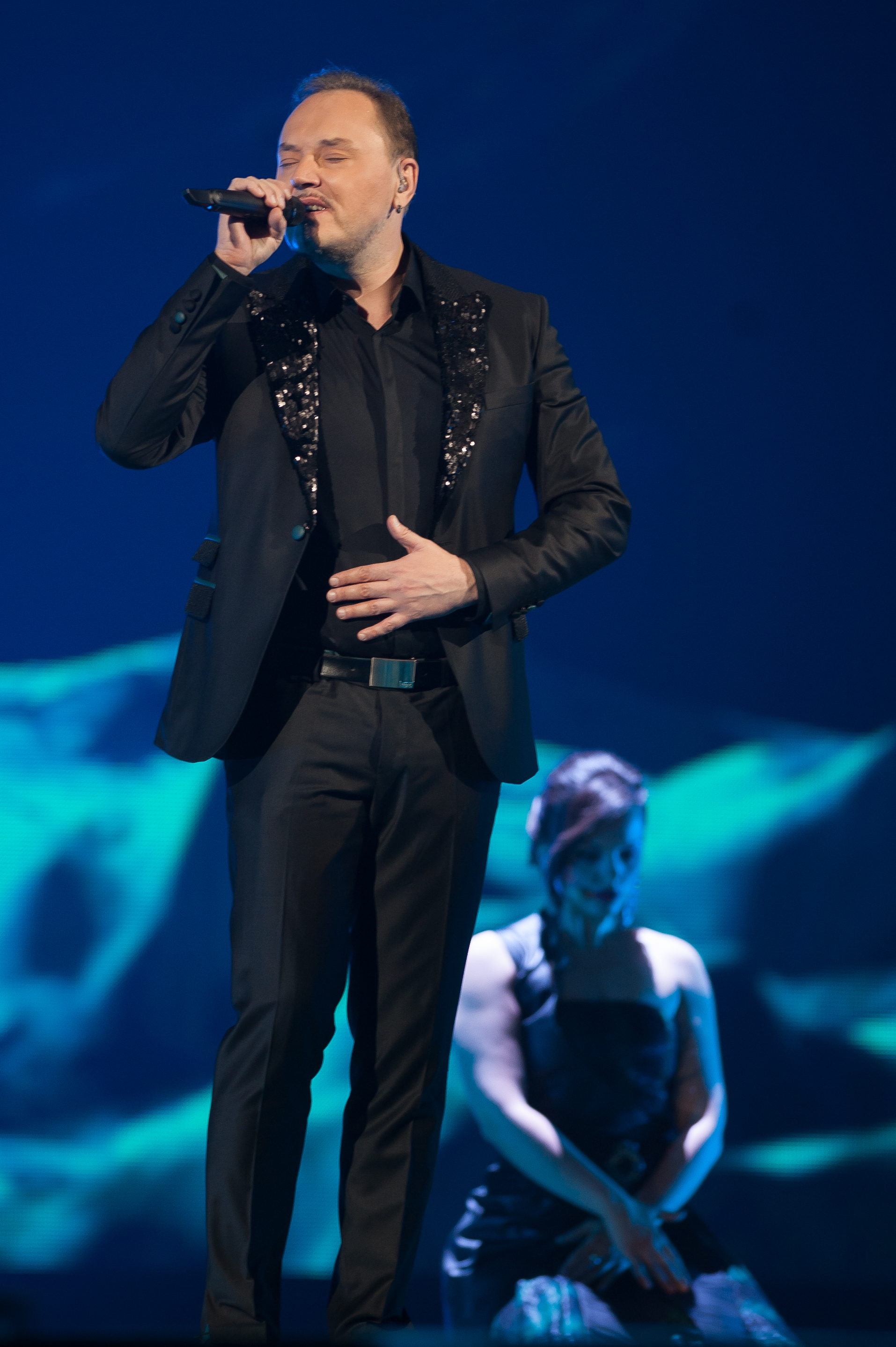 Eurovision Song Contest Vienna 2015: Knez